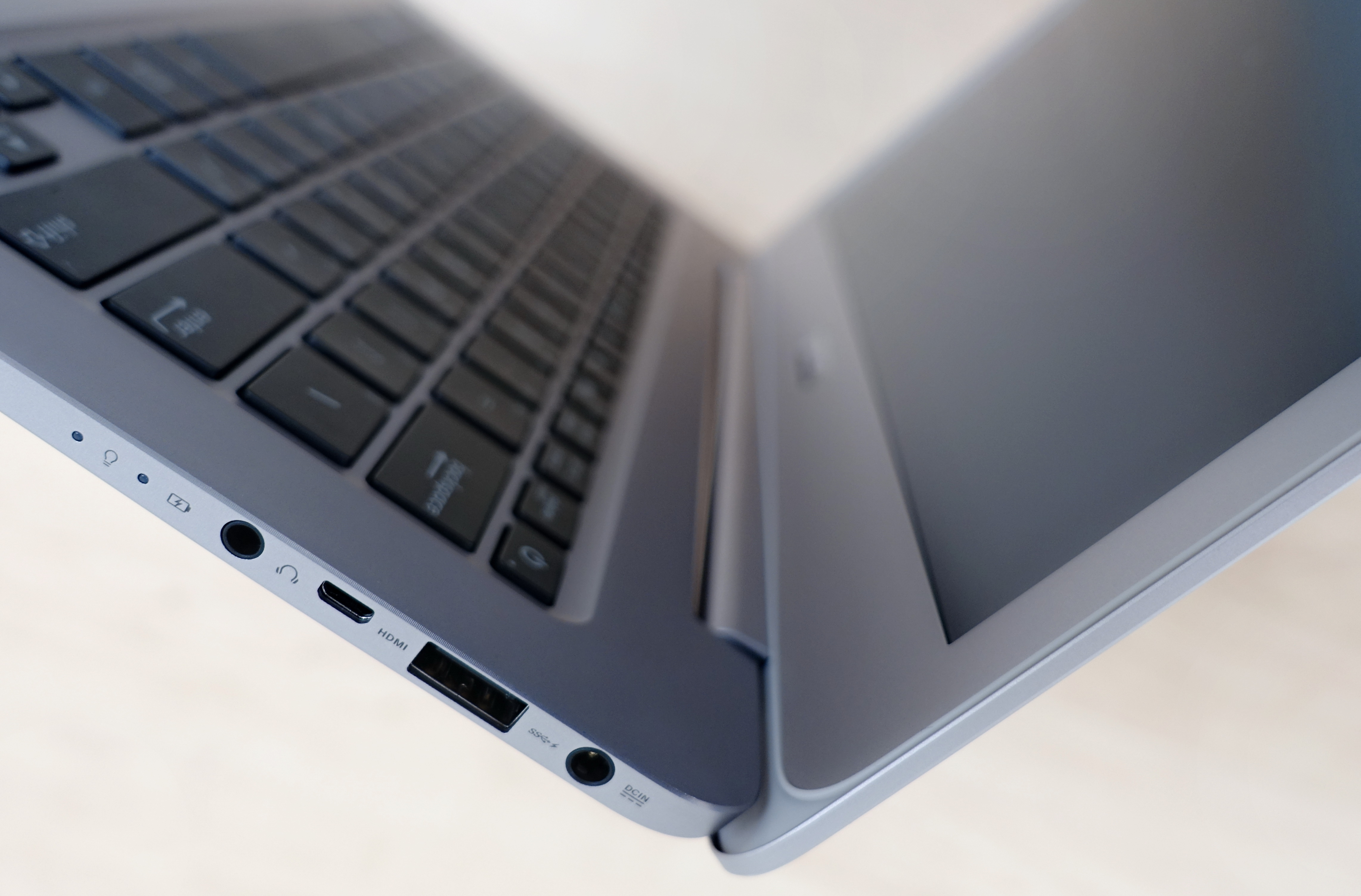 ASUS Zenbook UX305